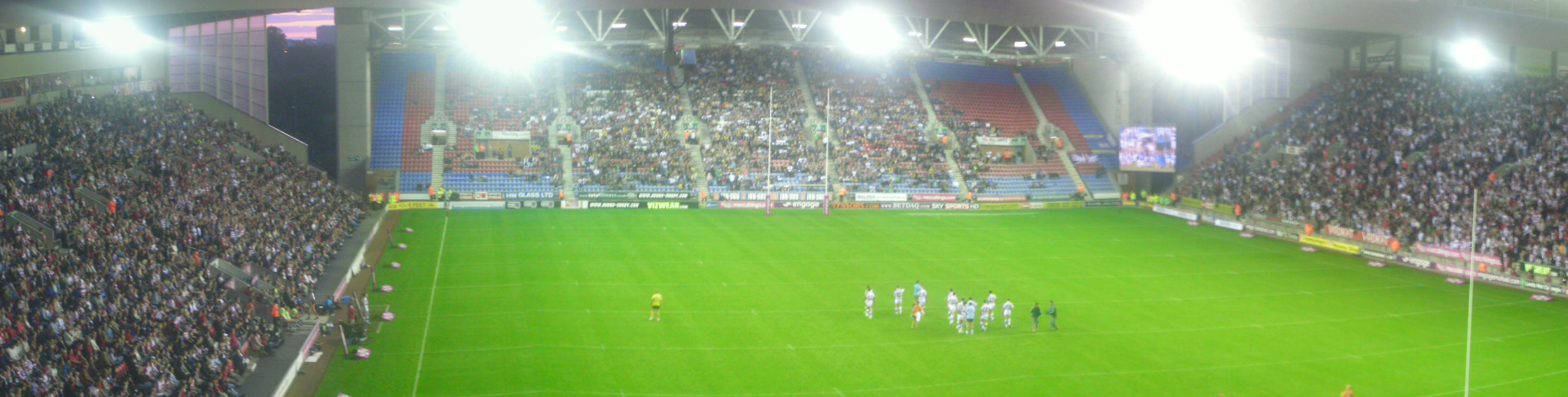 A panoramic view of the inside of the JJB Stadium as seen from its southern stand, during a match between Wigan Wariors and Leeds Rhinos in July 2009.